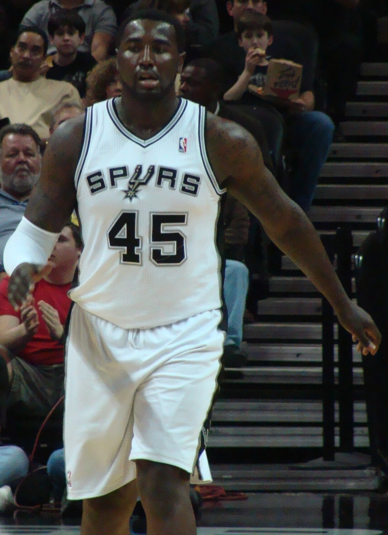 DeJuan Blair of the San Antonio Spurs, during the Spurs-Nuggets match on 12-22-2010 in San Antonio, TX.